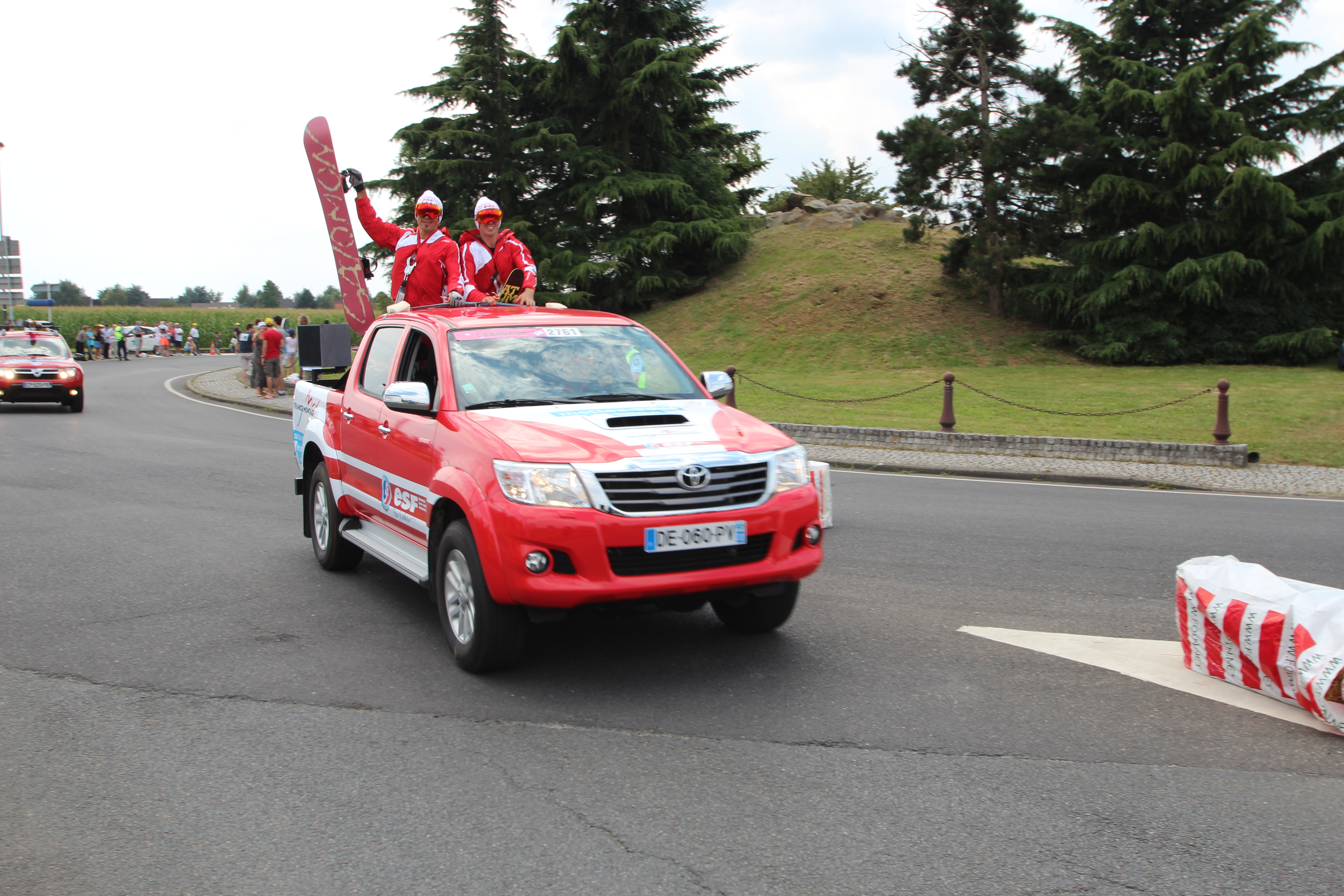 Caravan of the Tour de France 2014 July 27, 2014 in Gometz-la-Ville, France. Object location48° 40′ 35.1″ N, 2° 07′ 57.87″ E